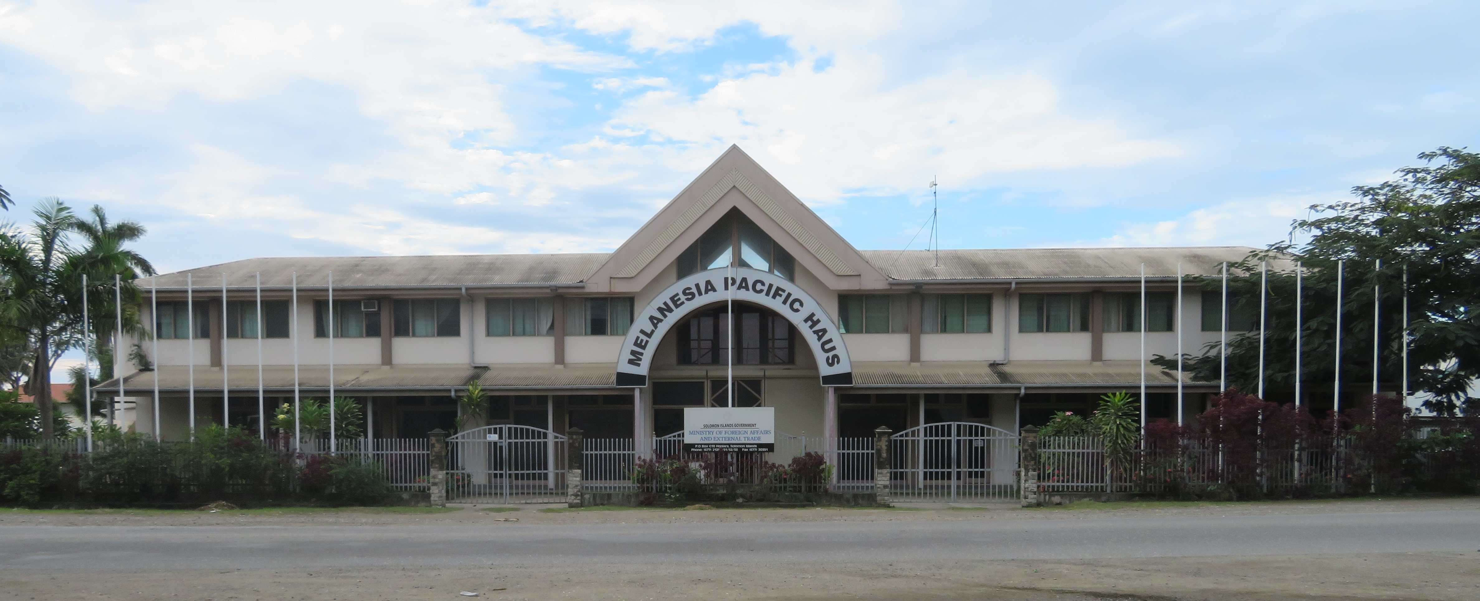 Ministry of the Interior, Honiara, Solomon Islands